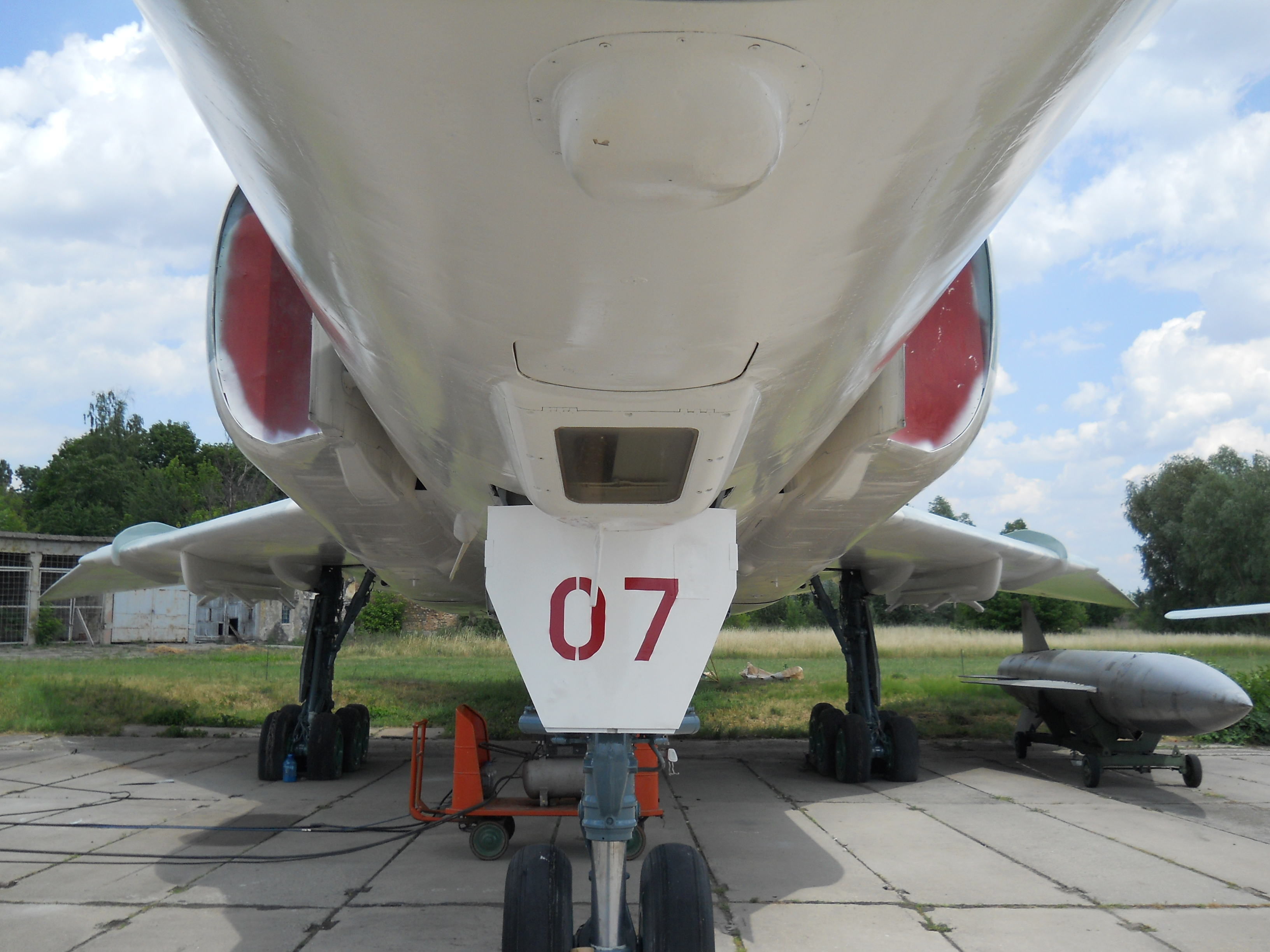 kiev ukraine 1076 state aviation museum zhulyany (79) Tupolev Tu-22M-2 Bakfire-B Long range bomber